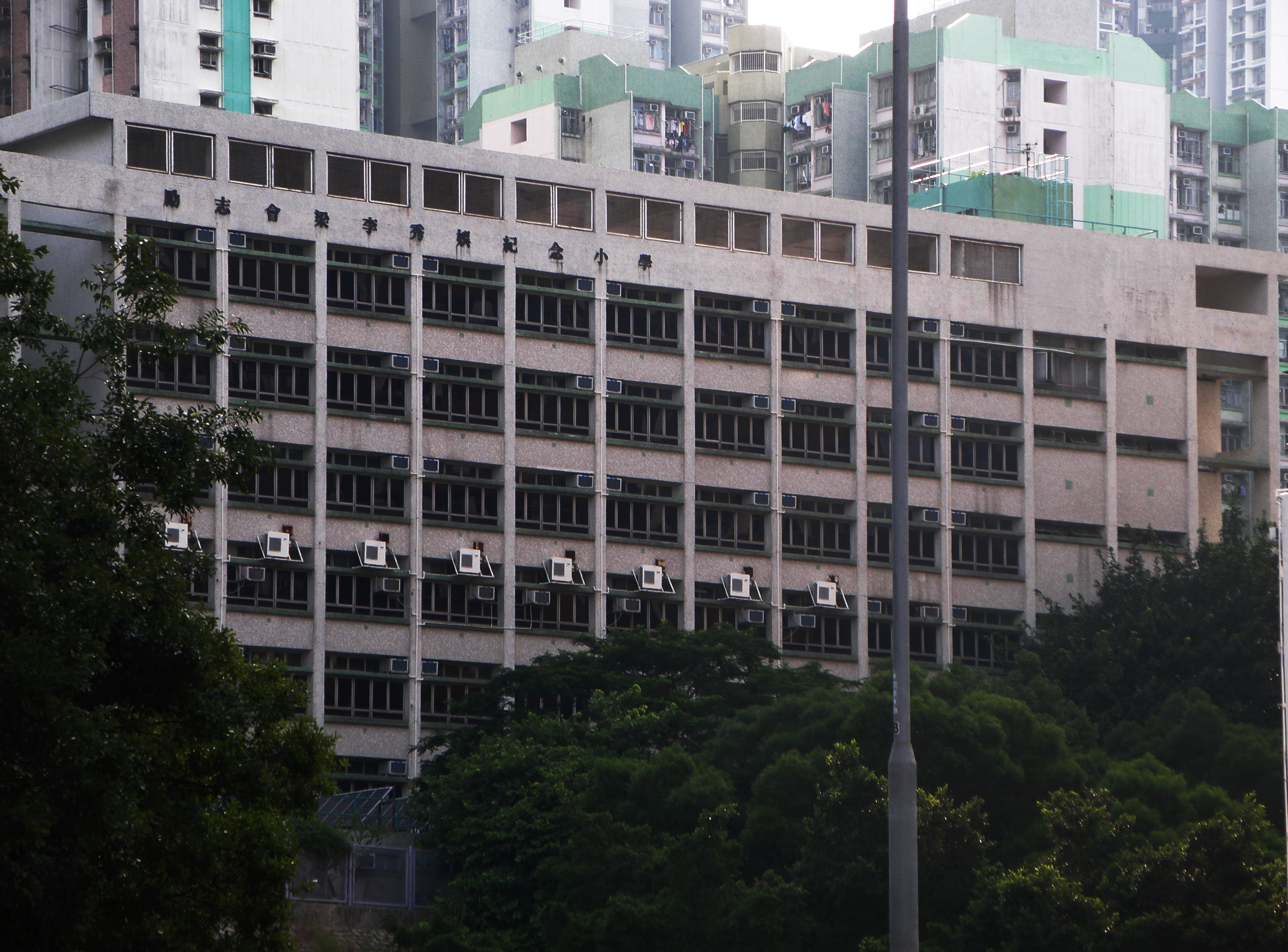 The Endeavourers Leung Lee Sau Yu Memorial Primary School in Shau Kei Wan, Hong Kong.